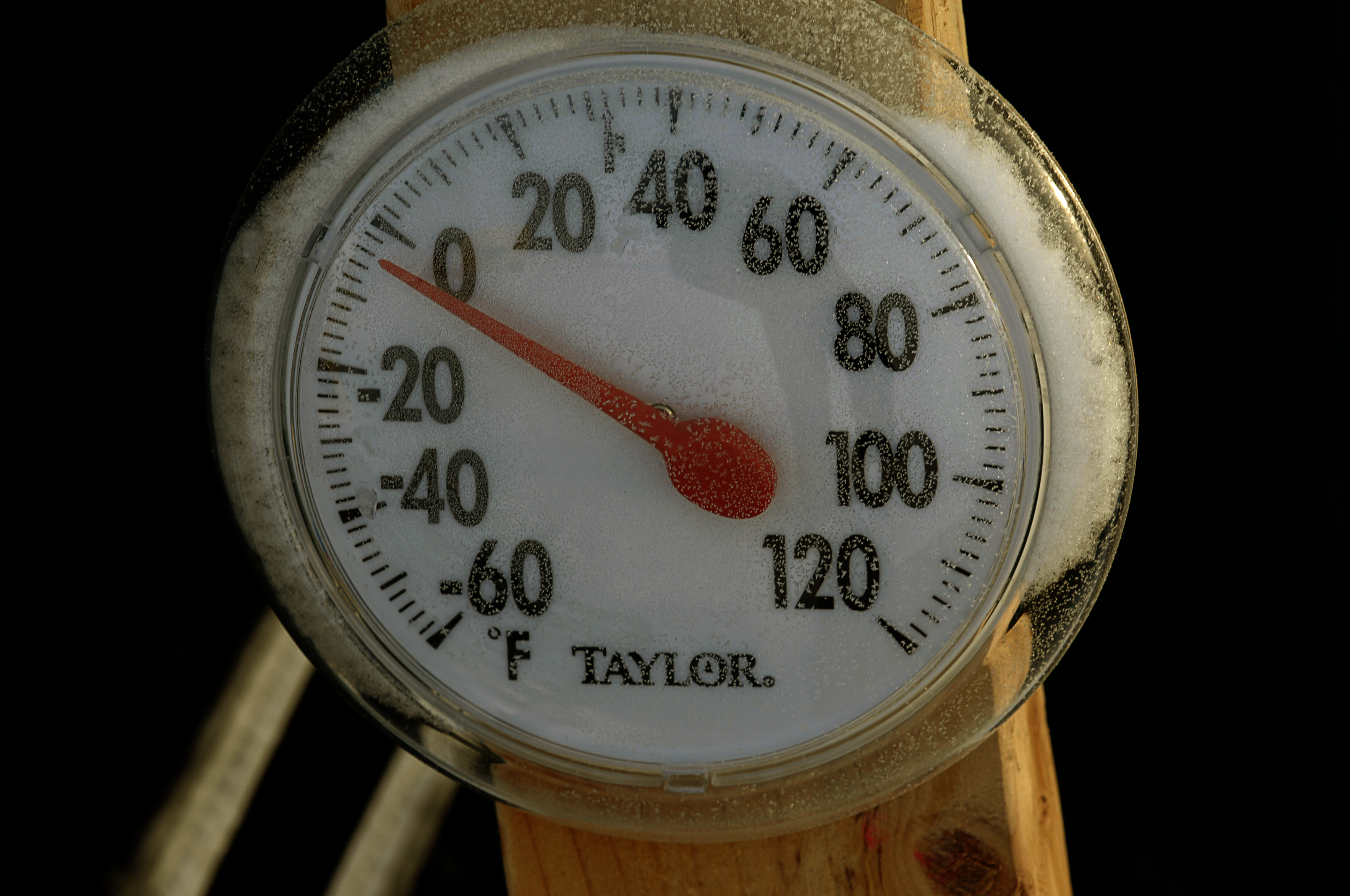 ARCTIC OCEAN (March 17, 2007) - During the warmest part of the day, a thermometer outside of the Applied Physics Laboratory Ice Station's (APLIS) mess tent still does not break out of the sub-freezing temperatures. APLIS is located 180 nautical miles off the north coast of Alaska and is home to the ICEX-07, a U.S. Navy and Royal Navy exercise being conducted to demonstrate the nations’ commitment to assuring access to all international waters. U.S. Navy photo by Chief Mass Communication Specialist Shawn P. Eklund (RELEASED)